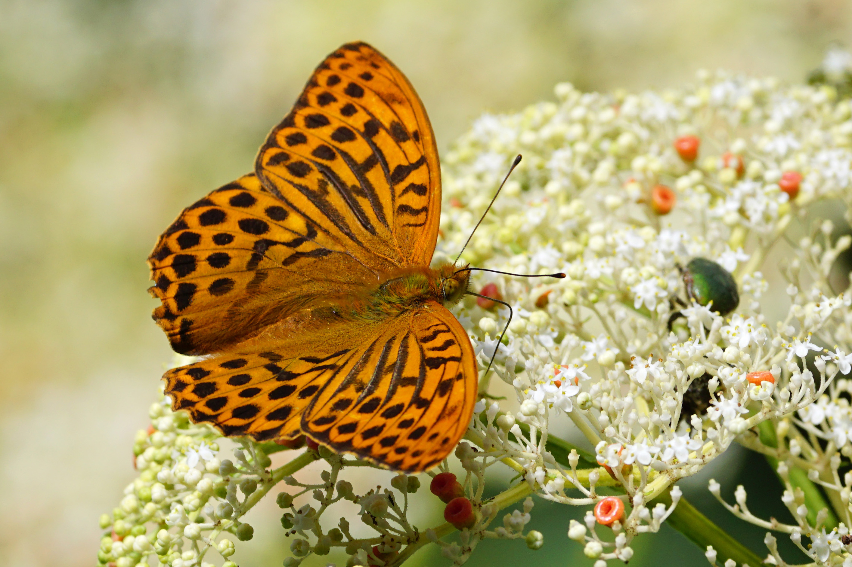 中文（台灣）: 綠豹蛺蝶 Argynnis paphia formosicola